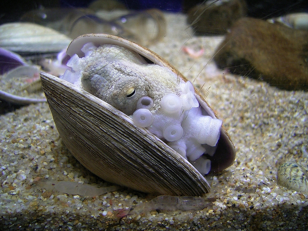 イイダコ（飯蛸 英名：en: Amphioctopus fangsiao (d'Orbigny, 1839) (synonym: Ocellated octopus 学名：Octopus ocellatus）